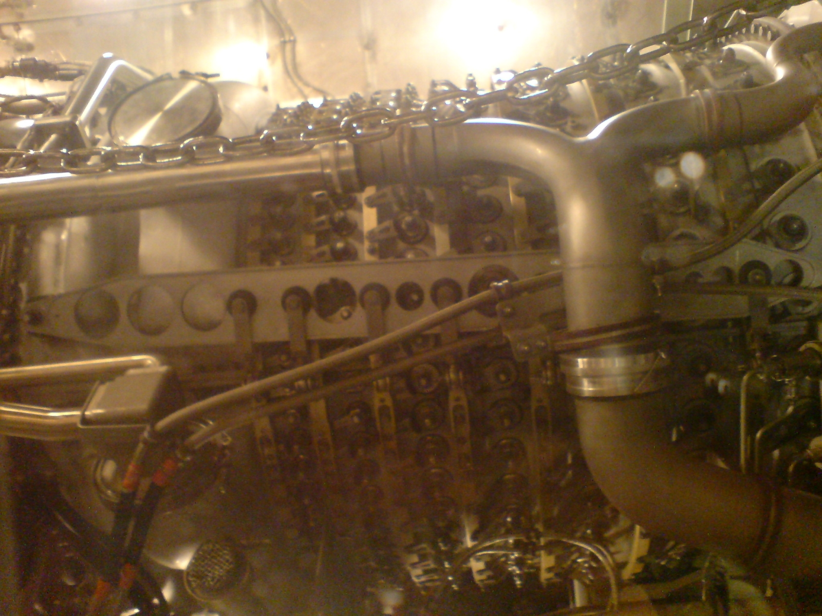 A gas turbine in HMNZS Te Kaha, encased in a protective box (as much to protect the outside from the emissions of the turbine as vice versa, I'd assume). Photo taken through a small glass window on the side.